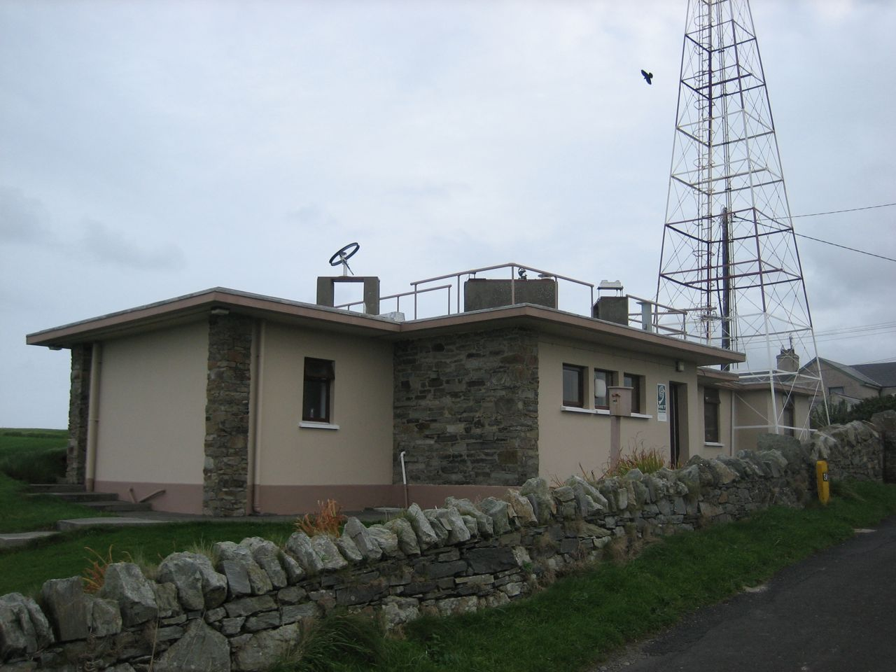 Met Éireann Weather Station, Malin Head, Co.Donegal